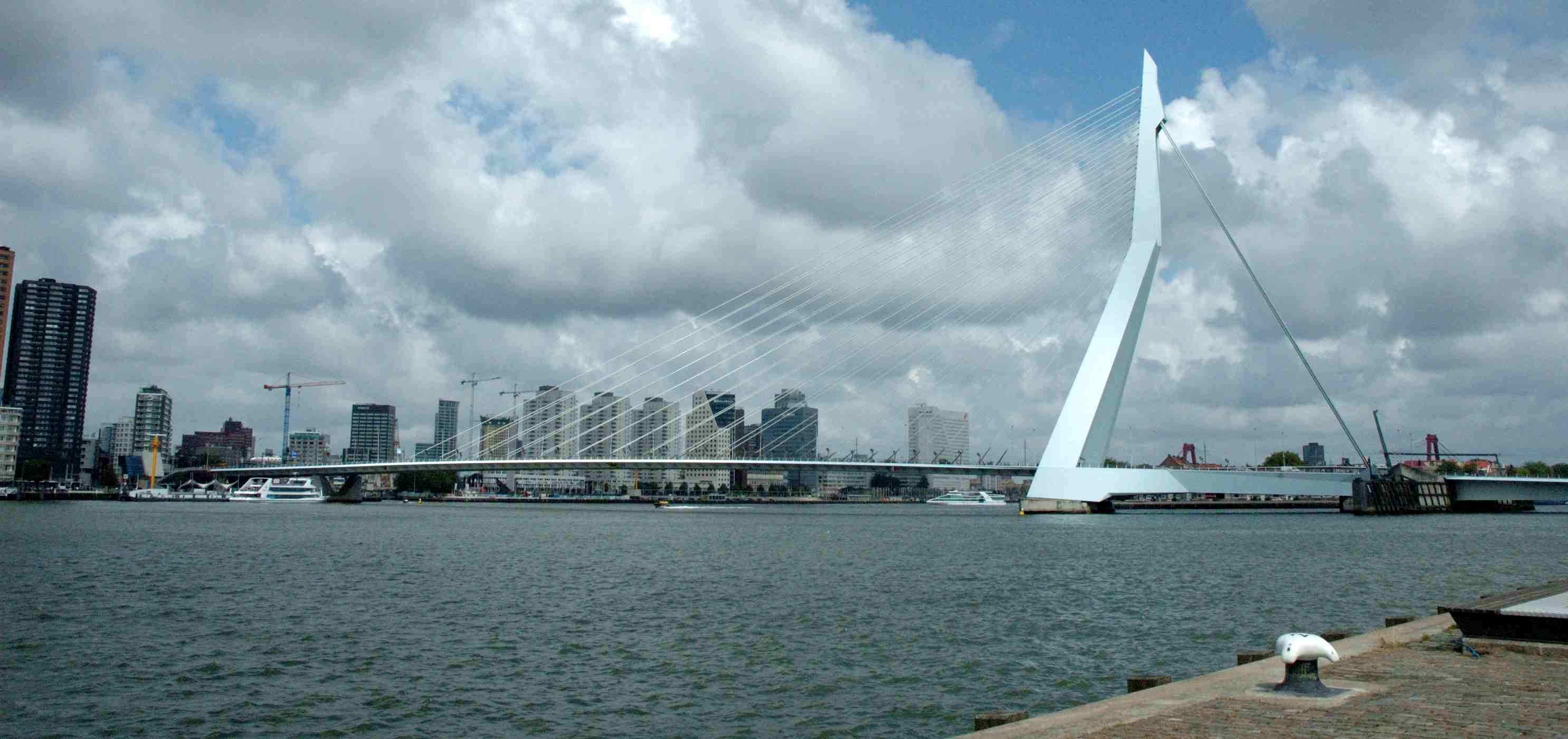 Erasmus bridge, Rotterdam, The Netherlands